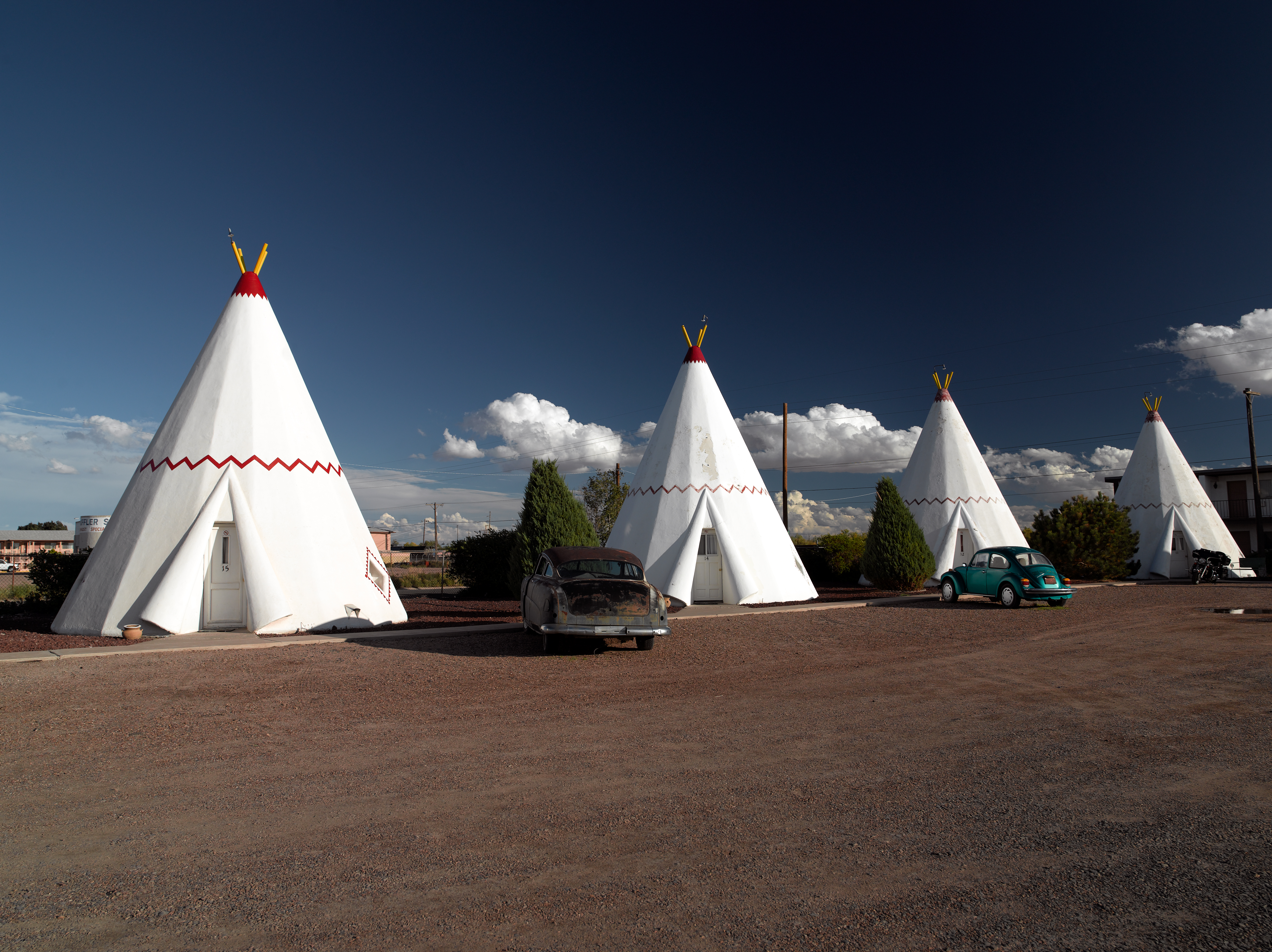 Wigwam Motel, Route 66, Holbrook, Arizona